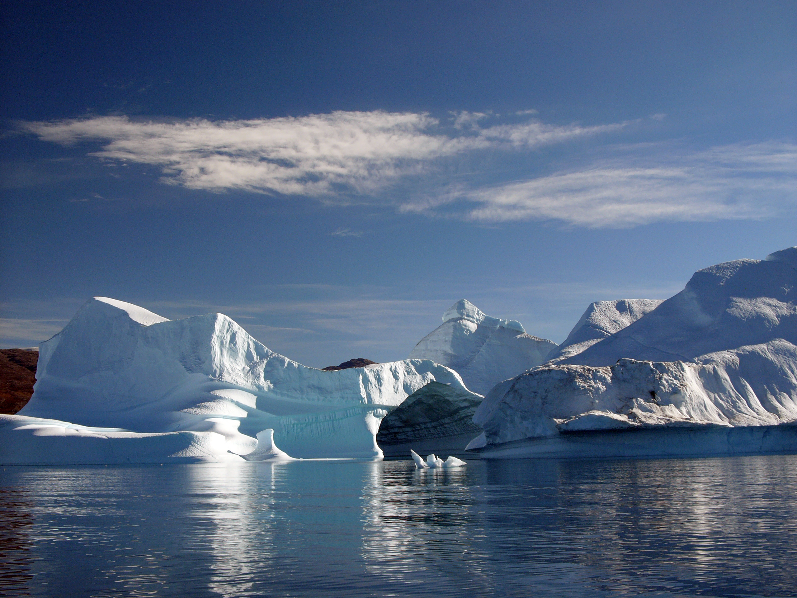 Iceberg in Rødefjord (Scoresby Sund), Greenland